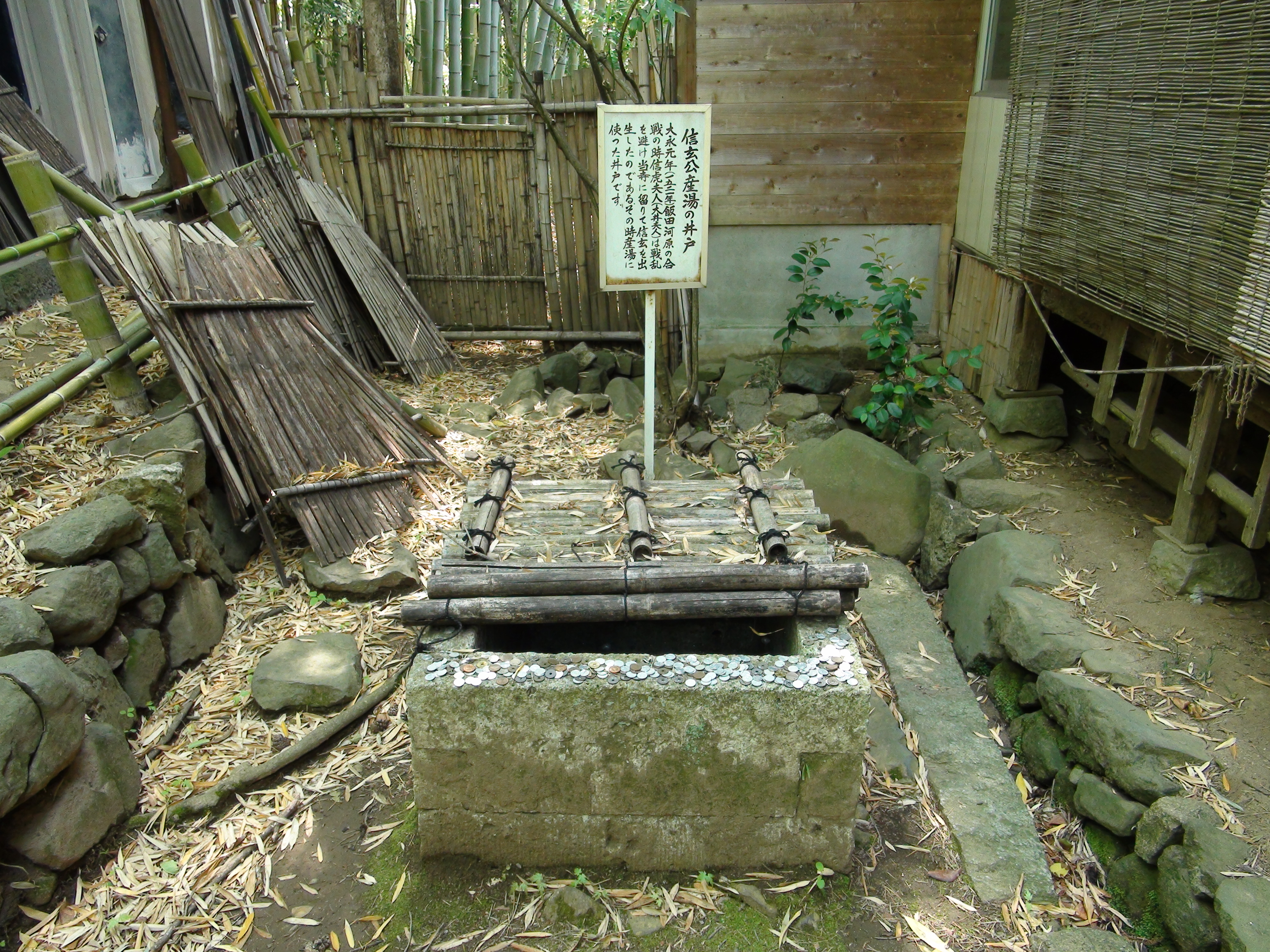 "Shingenko ubuyu no ido," which is said to be a water well for Takeda Shingen's first bath, in Sekisui-ji Temple.